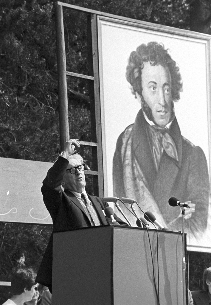 “Semyon Geichenko speaking”. Semyon Geichenko, the curator of the State Memorial, History, Literature and Nature Reserve-Museum of Alexander Pushkin "Mikhailovskoye", speaking at the 183rd anniversary of A.Pushkin's birthday in Mikhailovskoye, Pskov Region. 1982.